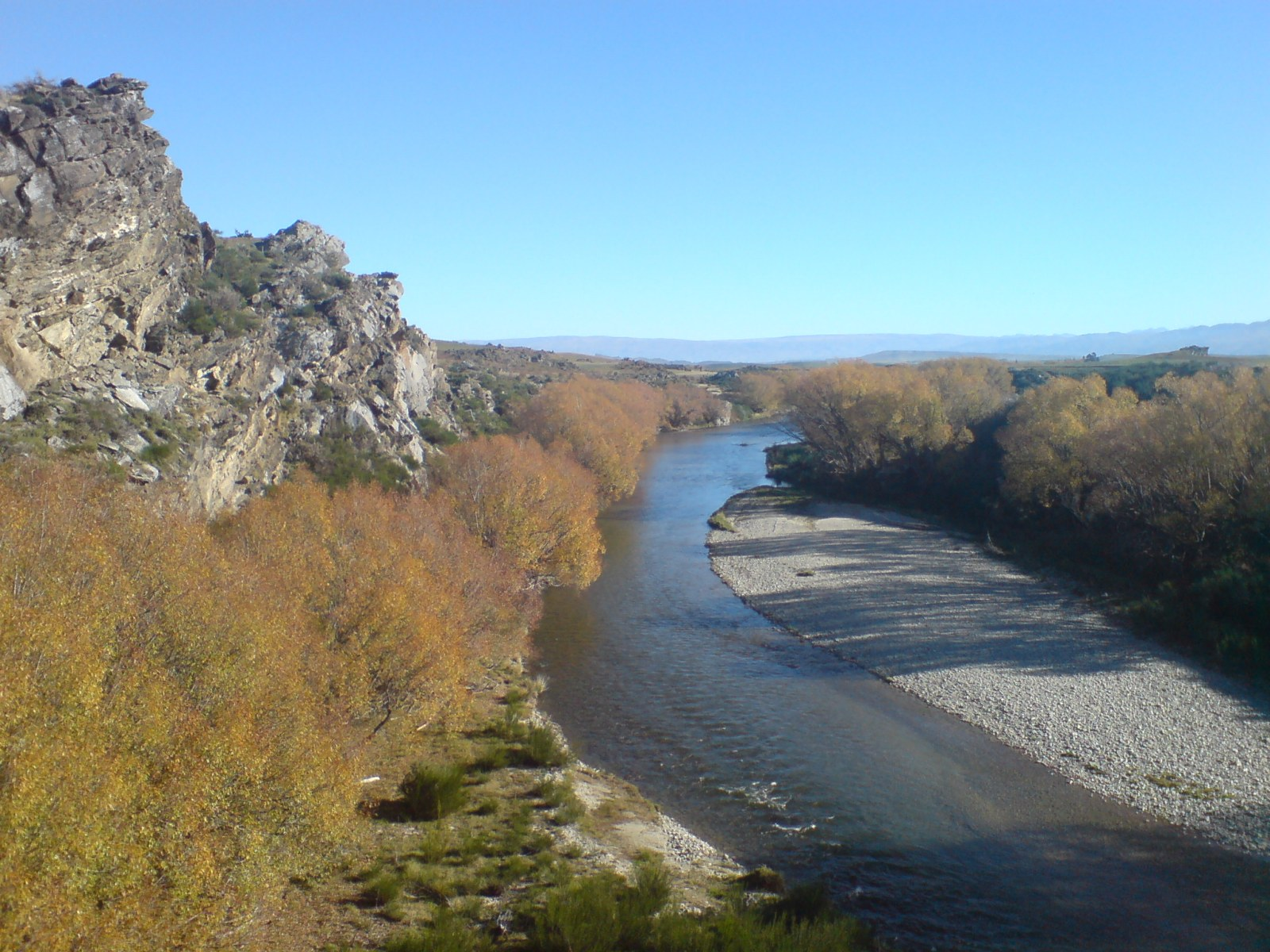 Looking down into the autumn-dry Manuherikia River from the Central Otago Rail Trail. Looking south from some distance west off Poolburn Gorge.